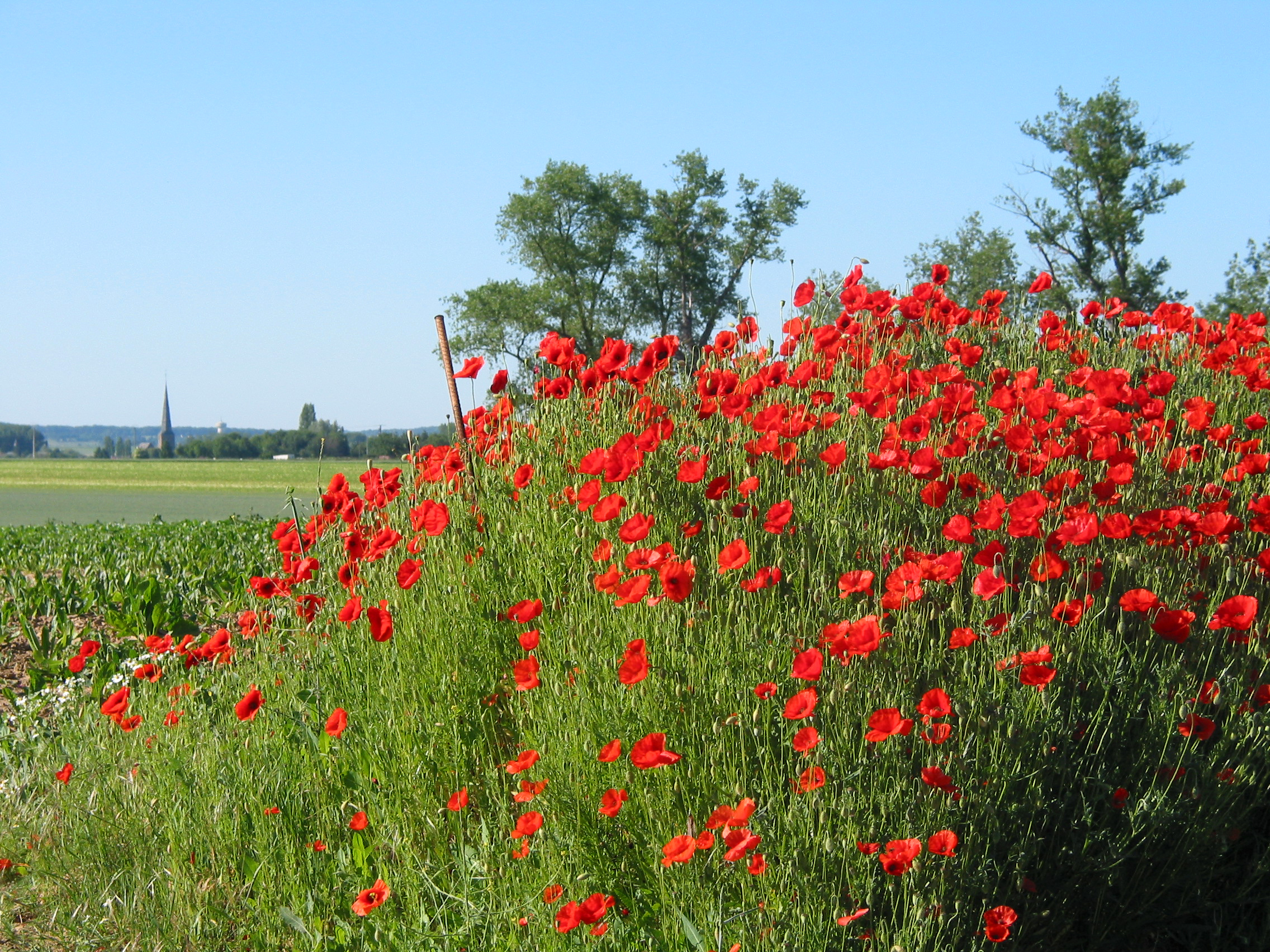 Grand-Reng (Belgium), the poppies on the knoll.